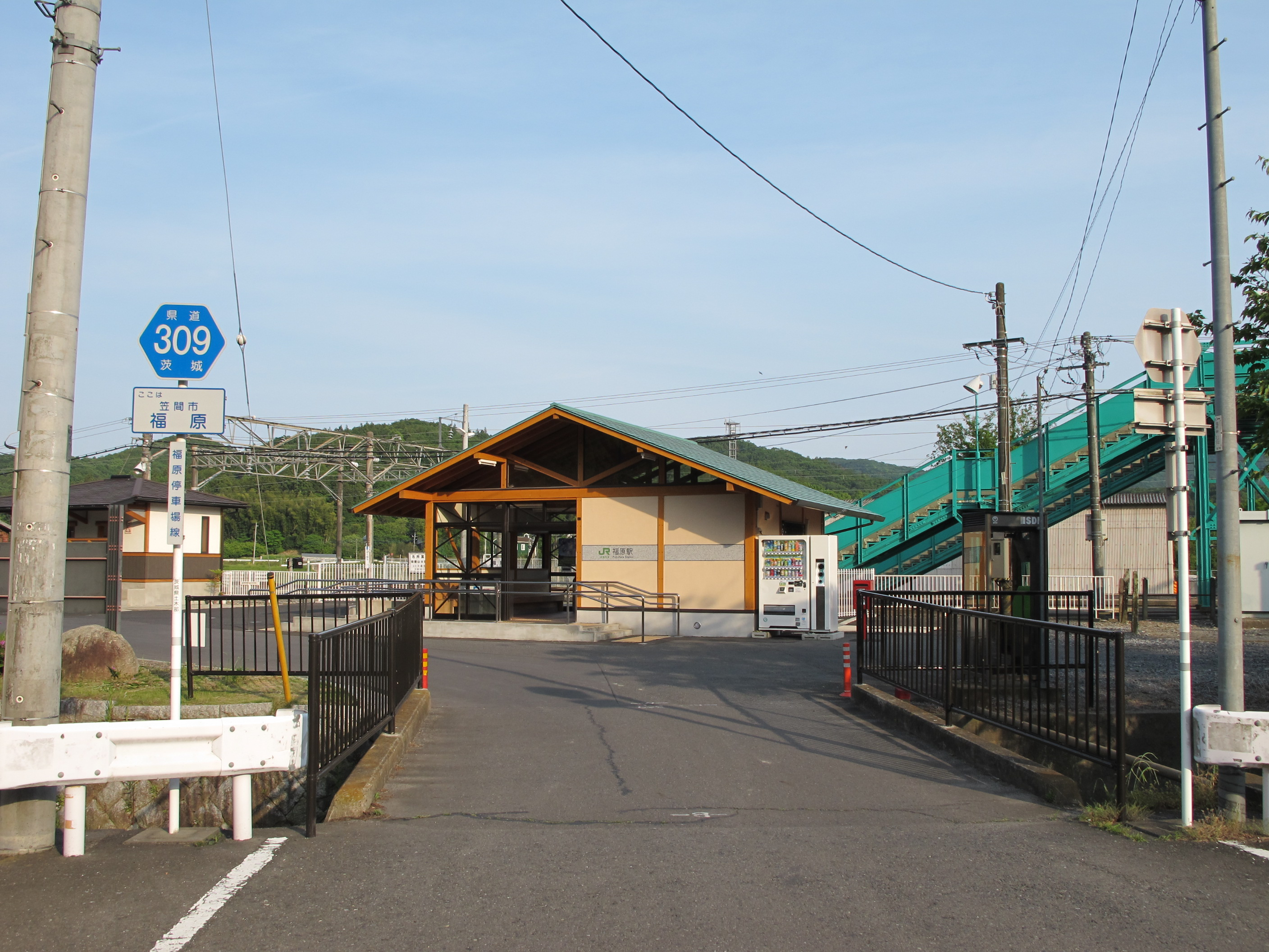 The Ibaraki Prefectural Road Route 309 and Fukuhara Station